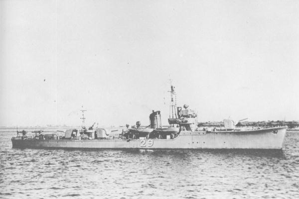 Japanese No.29 Minesweeper at Tokyo Port.